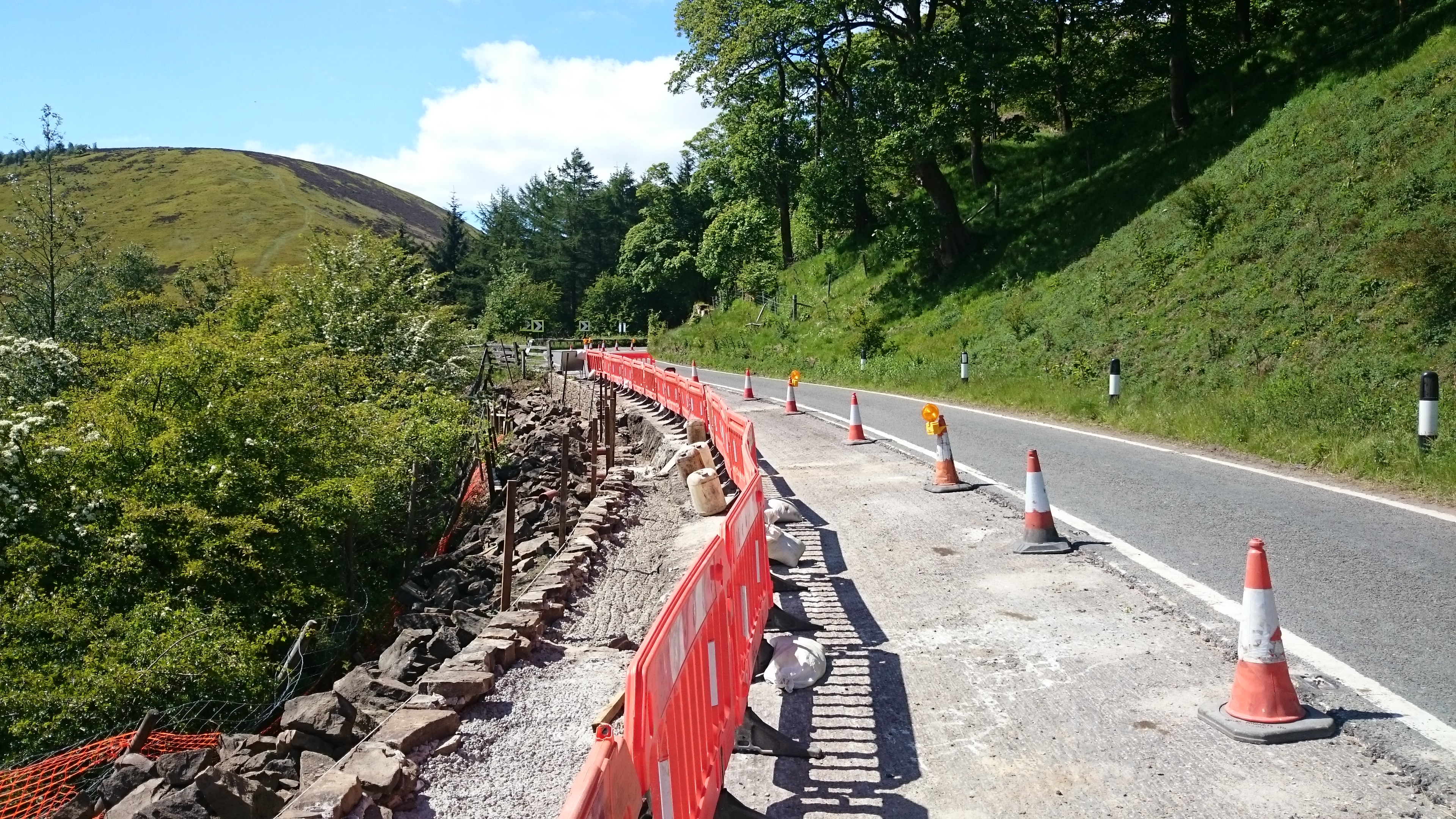 Repairs underway to a retaining wall on the A57 Snake Pass, UK